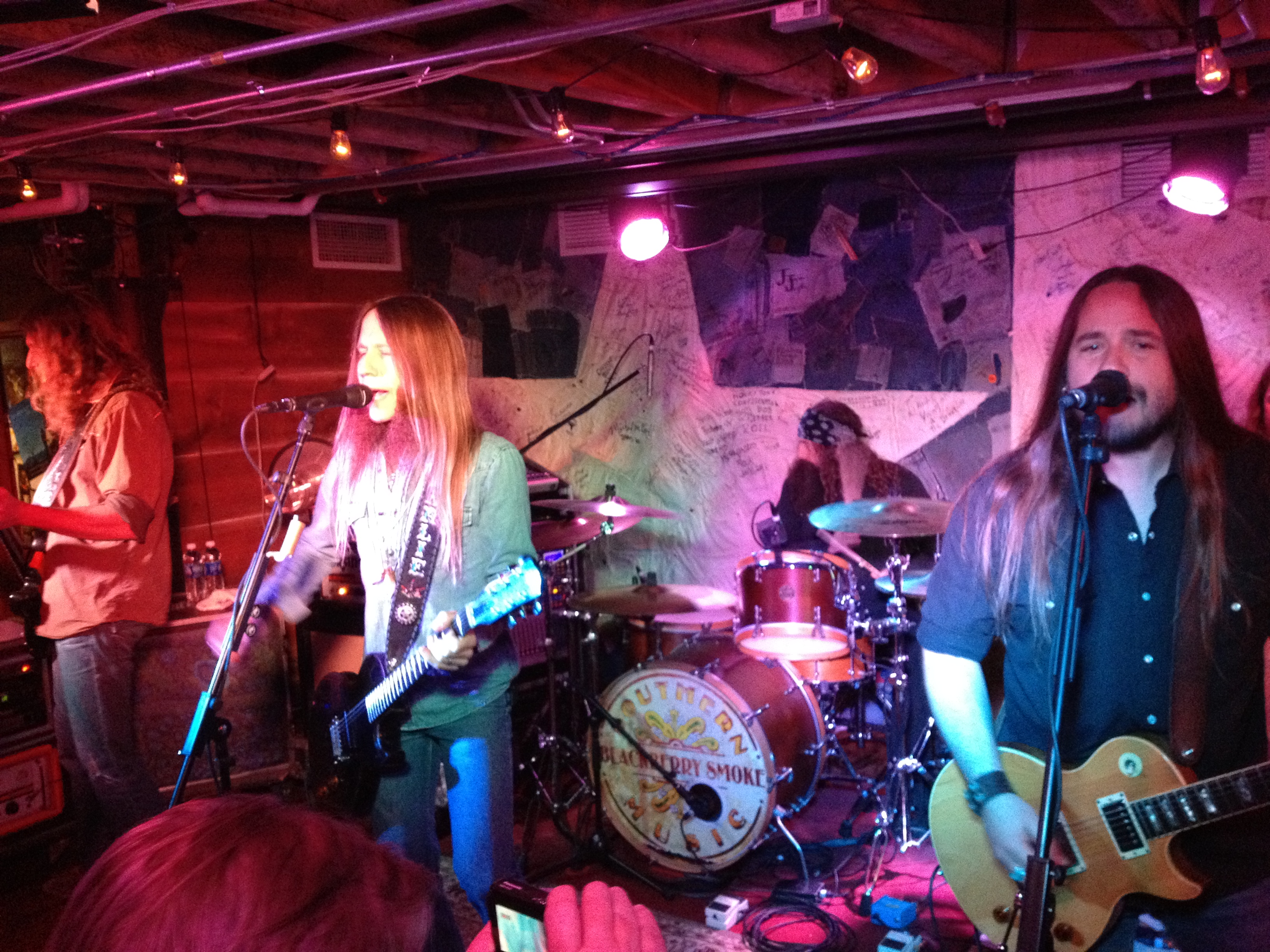 Blackberry Smoke in concert in 2012, Hill Country Barbecue, Washington DC